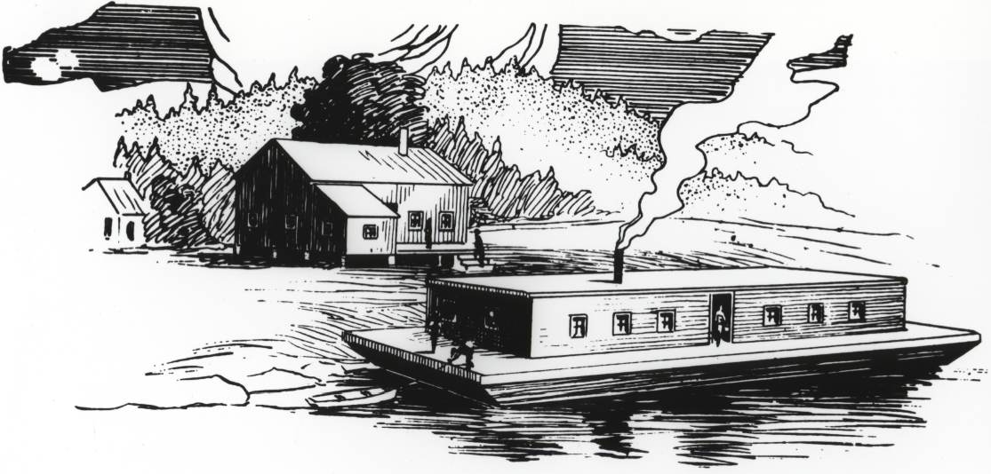 Sketch of the Pacific Coast's first salmon cannery, constructed in Sacramento in 1864, was prepared for the "Pacific Fisherman" magazine in 1903. The artist worked under the direction of C. W. Hume, one of the founders of the cannery.